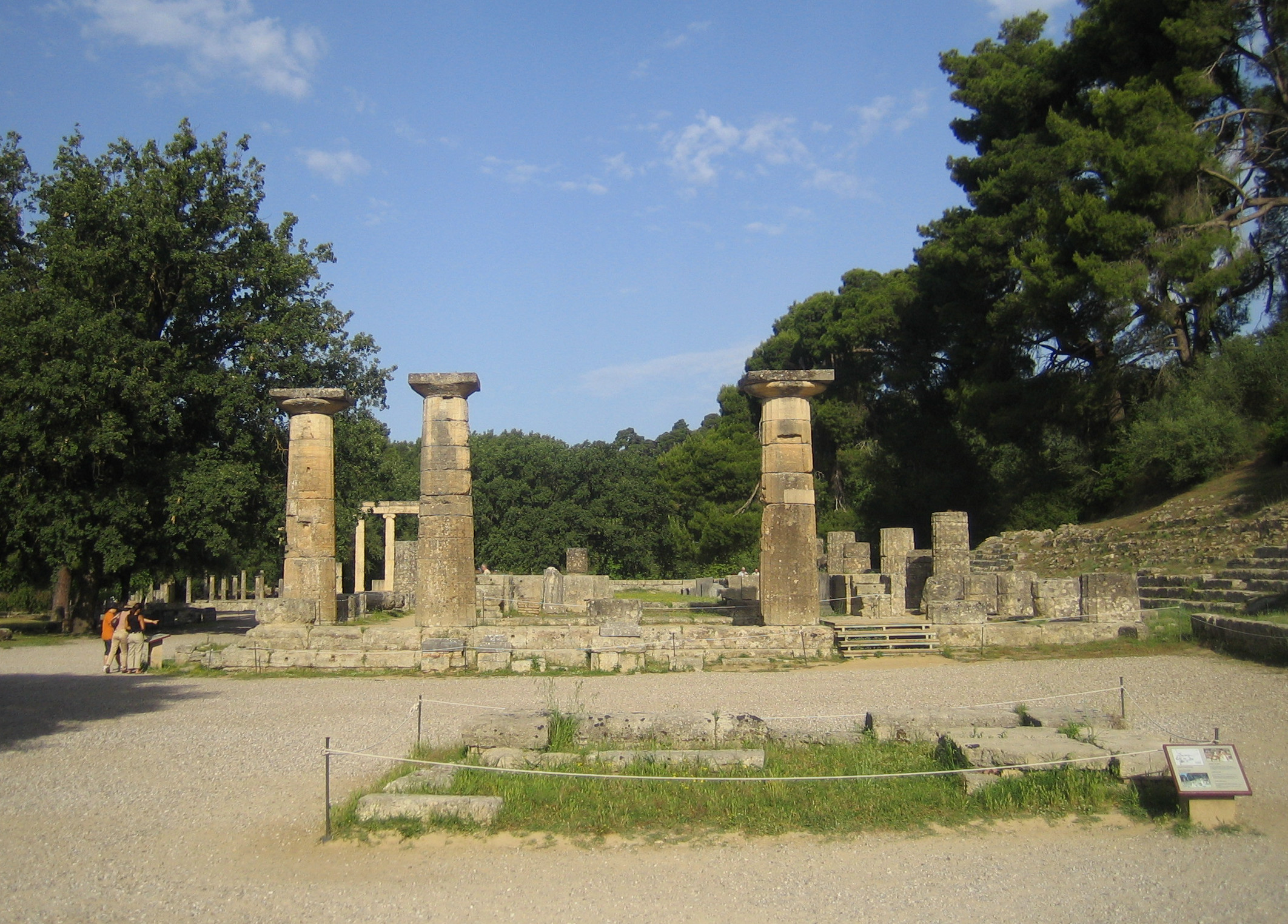 Altar of Hera in Olympia, Greece.